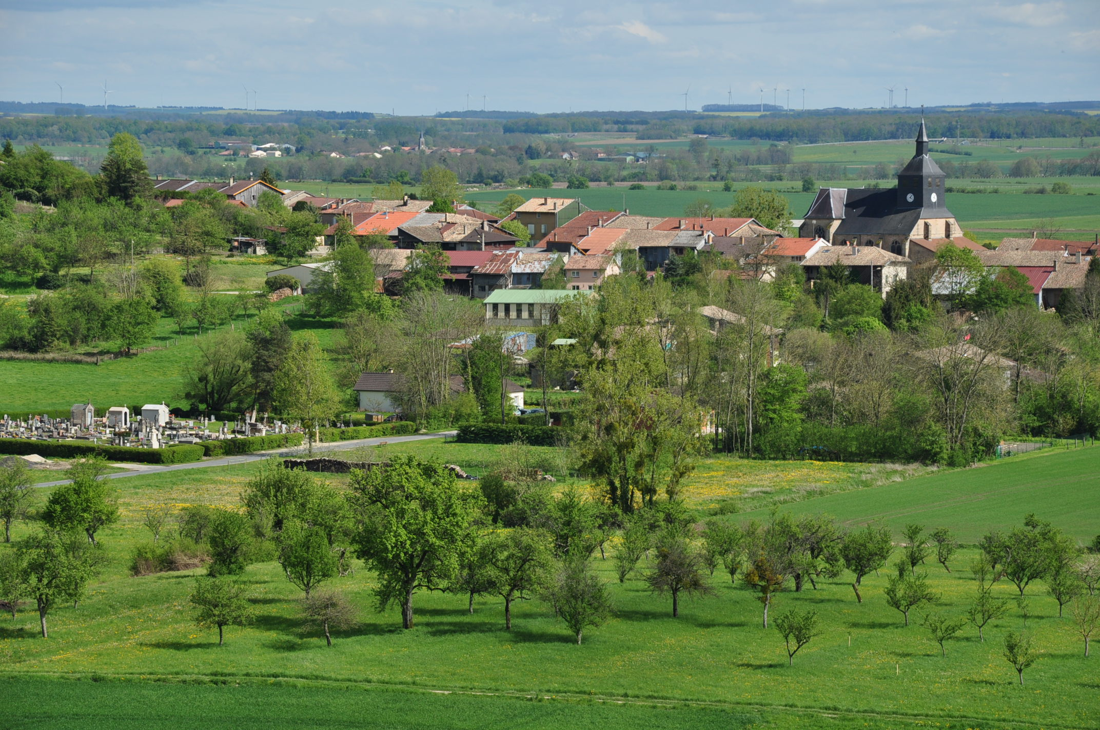 View of Passavant-en-Argonne (Marne department, Champagne-Ardennes region, France).